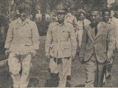 The Batavia fire brigade celebrated its 30th anniversary on 1 April. After a tour through the city under the siren of bellows, ringing bells and music from their own brass band, the sprayers on the Koningsplein were inspected by the governor of the Federal Area Batavia and Ommelanden, Hilman Djajadiningrat (center) and Mayor Sastromoeljono. On the left the commander of the jubilant corps, Mr. C. Weststrate.